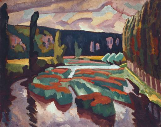 Photograph of River with Poplars, circa 1912. Oil on wood, by Roger Fry. In the public domain.